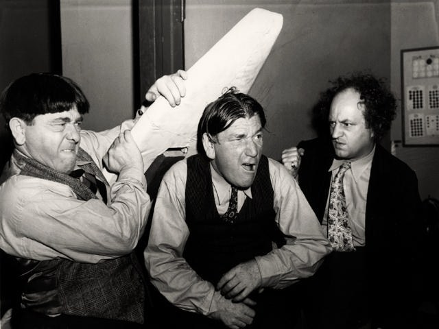 L. to R. : Moe Howard, Shemp Howard & Larry Fine (The Three Stooges) in Sing a Song of Six Pants - publicity still